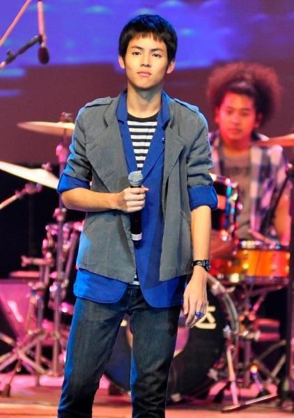 Witwisit Hiranyawongkul in Concert with August Band, Thailand